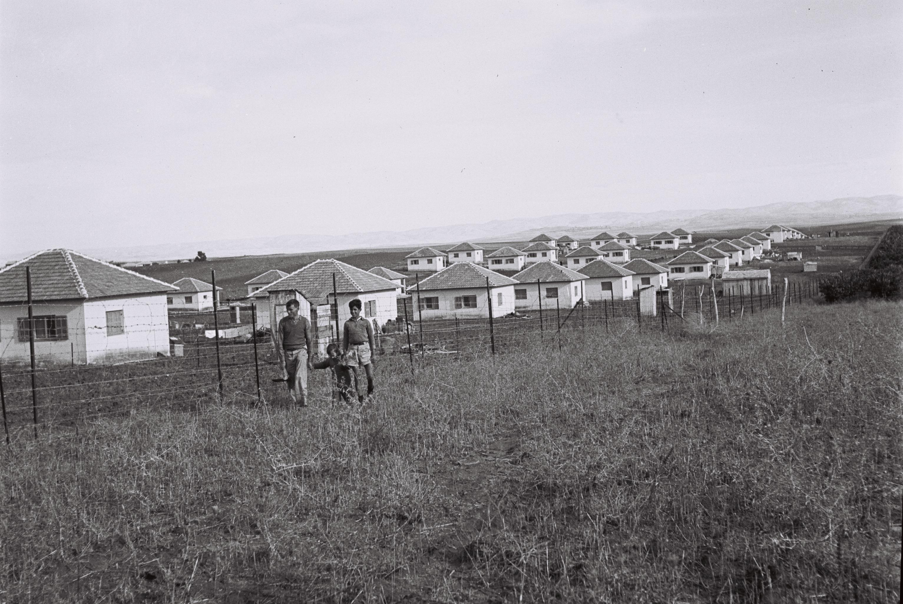 KFAR HAVATZELET NEAR REHOVOT. כפר חבצלת ליד רחובות.